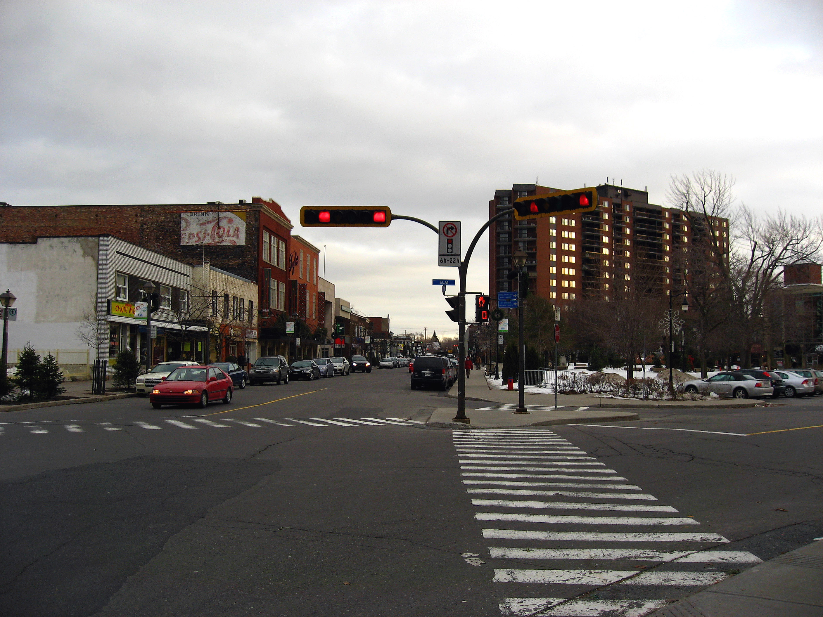 A photo of the intersection of Victoria Avenue and Green Street in Saint-Lambert, Quebec, Canada.